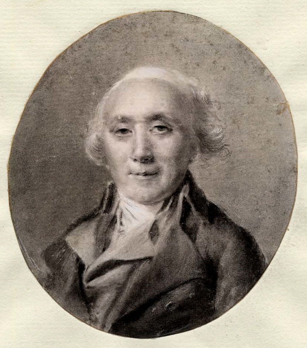 Portrait de Louis Necker (de Germany)